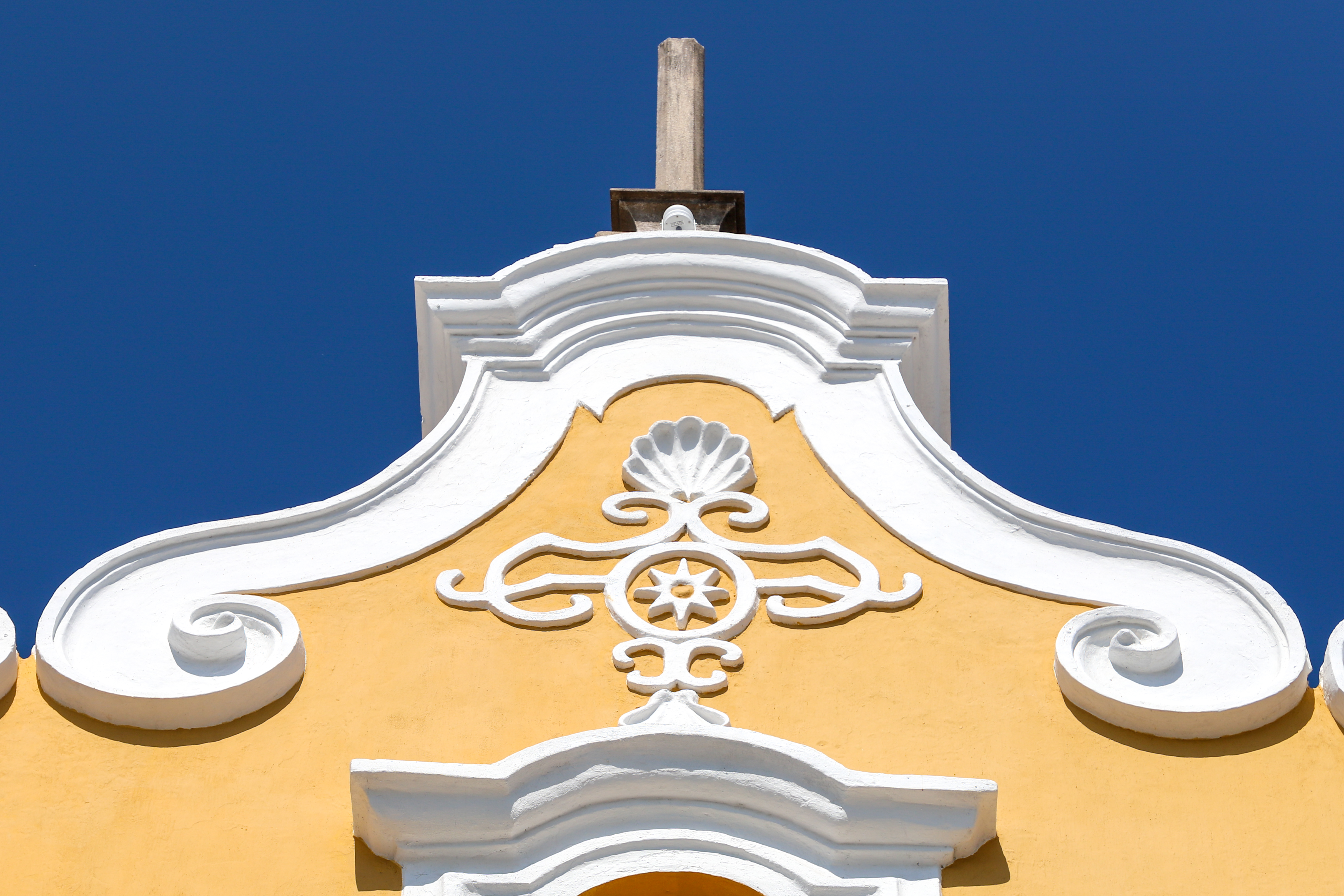 Igreja de Nossa Senhora da Saúde e Glória (Church of Our Lady of Health and Glory), Salvador, Bahia, Brazil.